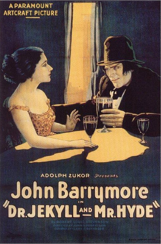 Movie poster for American film Dr. Jekyll and Mr. Hyde (1920).